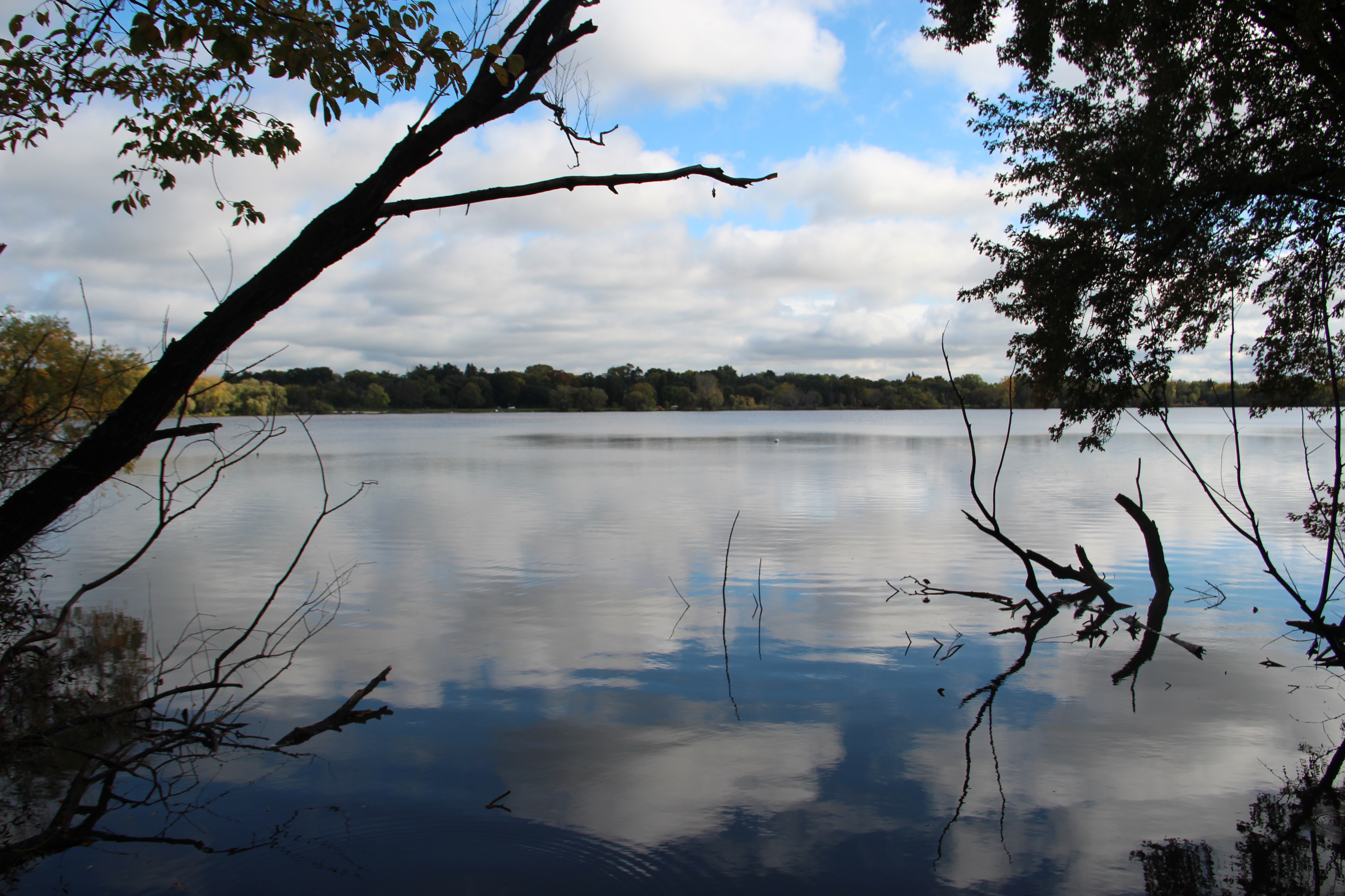 Lake Nokomis viewed from Lake Nokomis Pkwy bridge